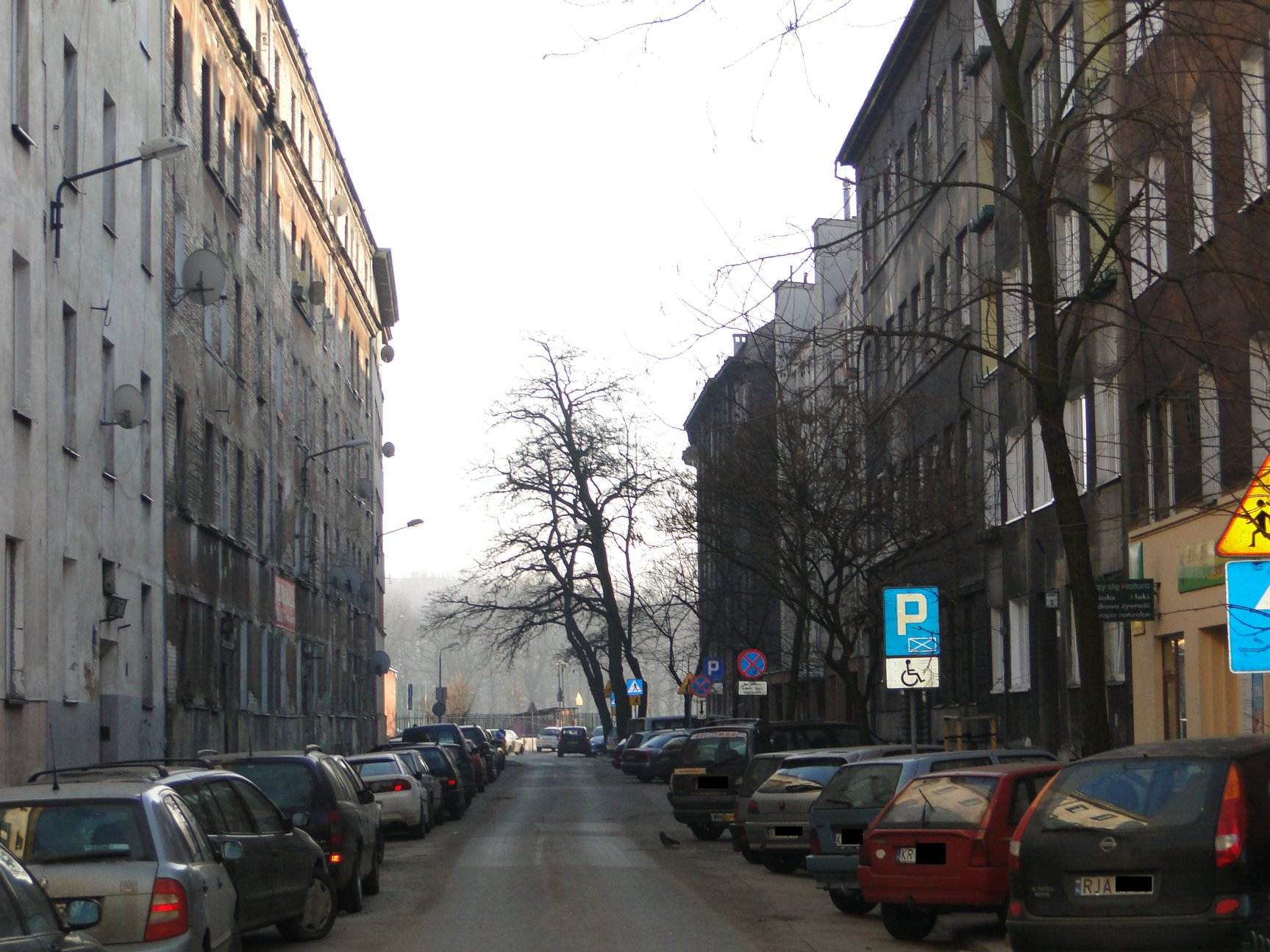 Wietor Street in Cracow, Poland